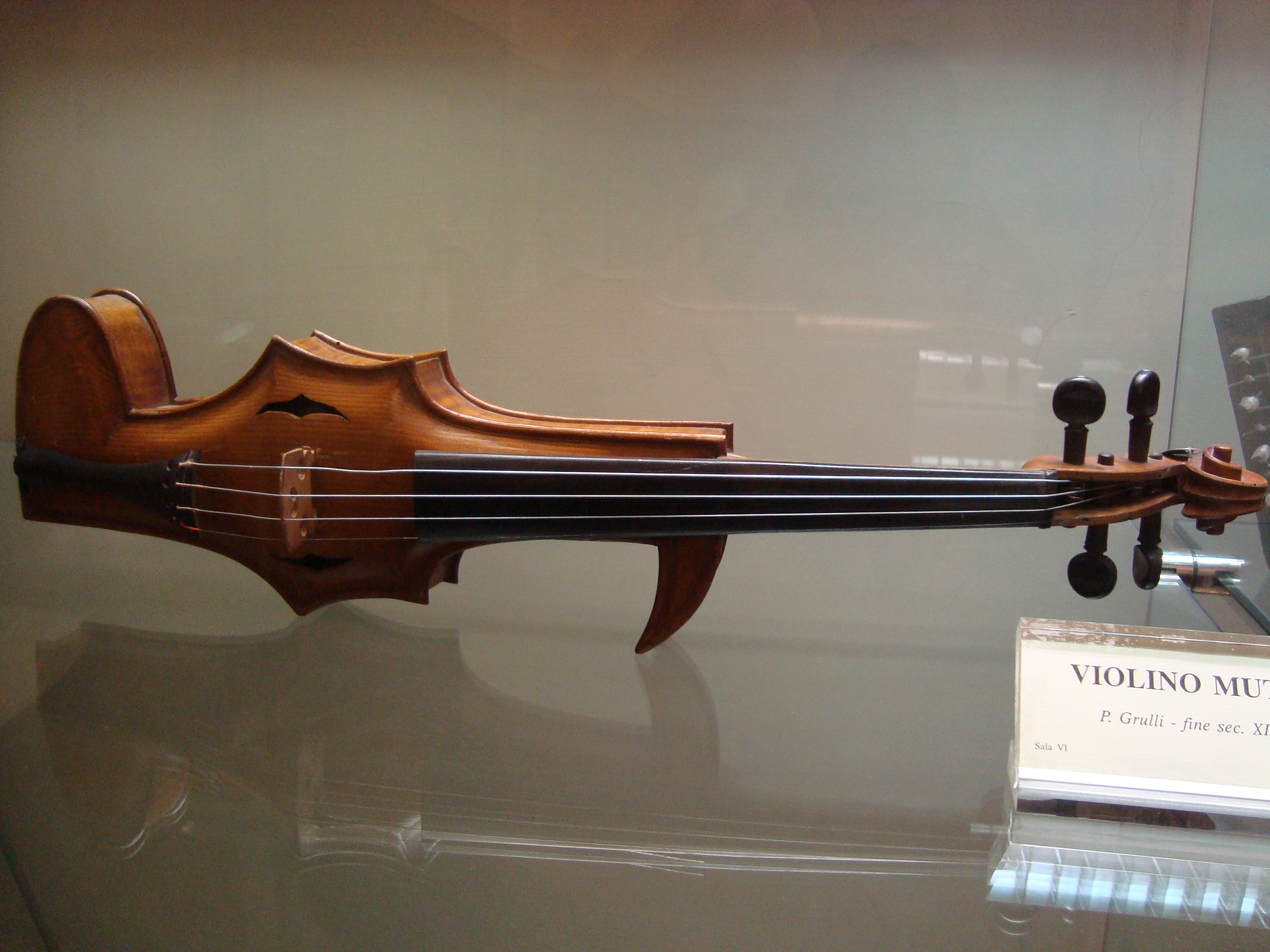 Mute/Deaf violon by P. Grulli, end of the 19th, Museo Nazionale degli Strumenti Musicali di Roma “Un violino muto, realizzato dal liutaio cremonese Pietro Grulli nel 1893.” —Italian Wikipedia "Violino muto" VIOLINO MUTO P. Grulli - fine sec. XIX Sala VI